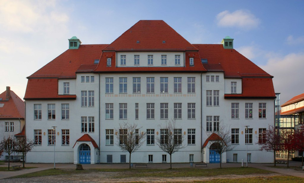 Picture of the Sorb Grammar School Cottbus